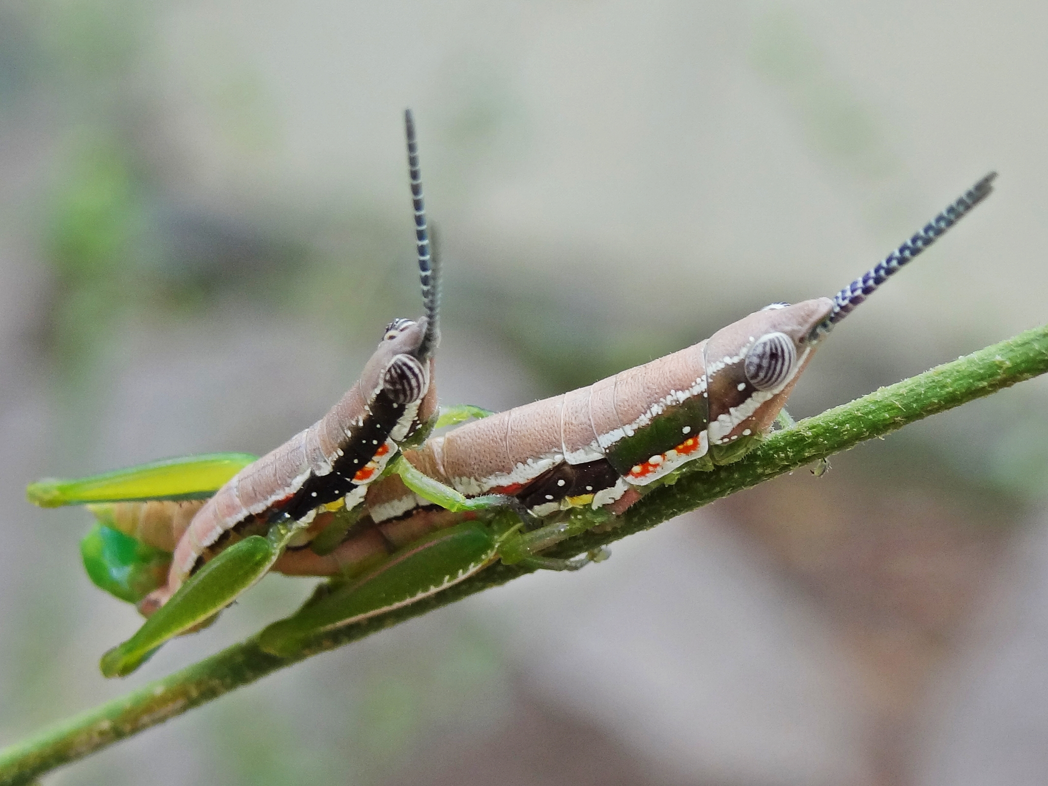 grasshoppers: female (larger) is laying eggs, with male in attendance.